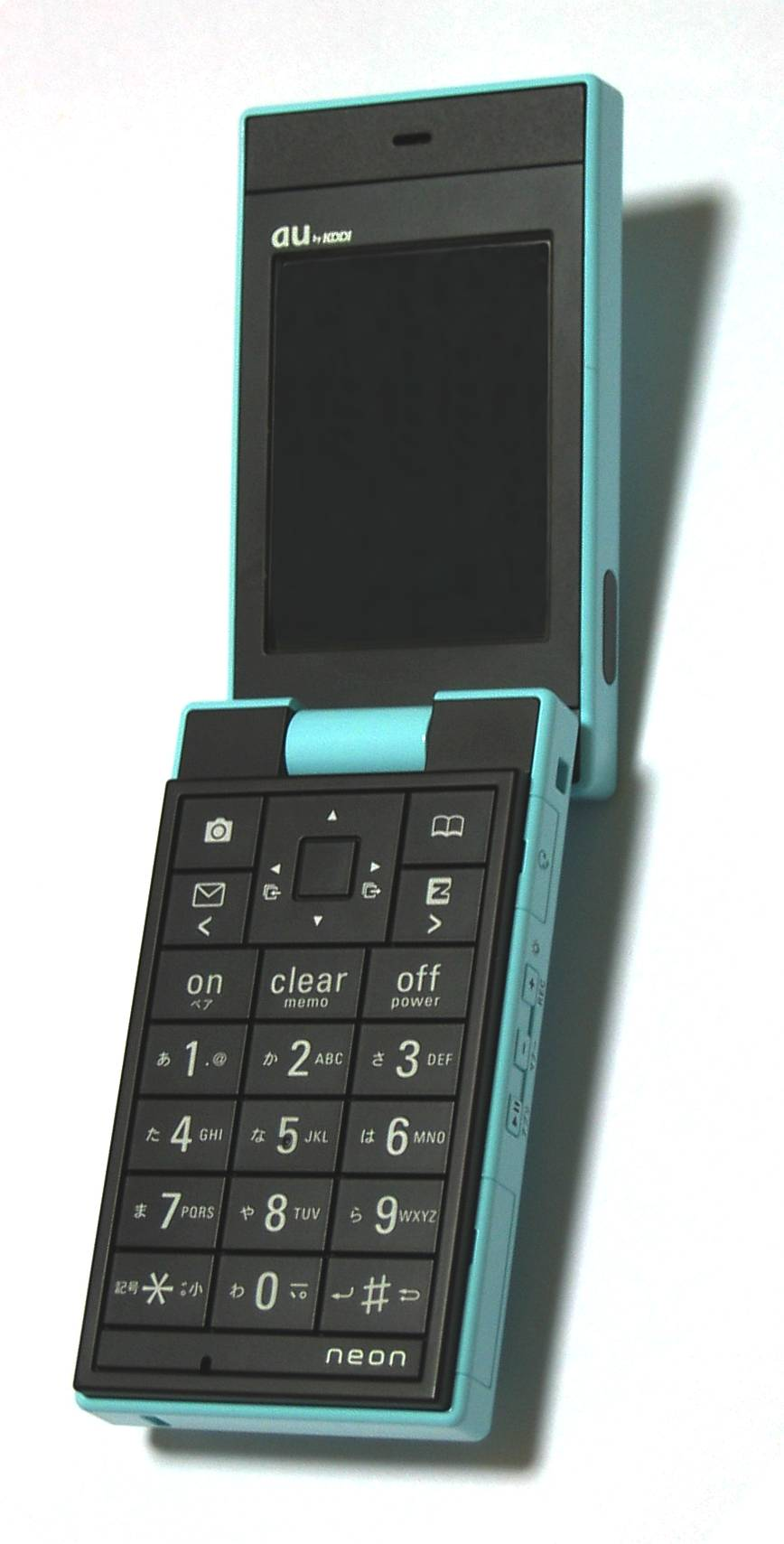 au CDMA 1X WIN W42T neon is a mobile phone that was designed by Fukasawa Naoto.